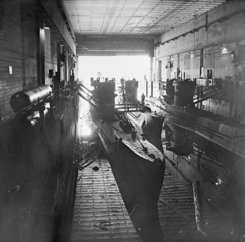 The Campaign in North-west Europe 1944-45 Three U-boats in a submarine pen at Trondheim, 19 May 1945.